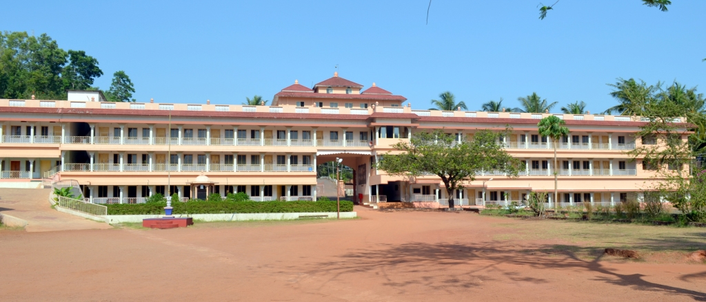 This is a pre university college run by Sri Sathya Sai Loka Seva trust